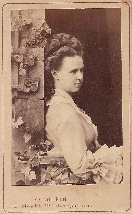 Russian Imperial Family Phot